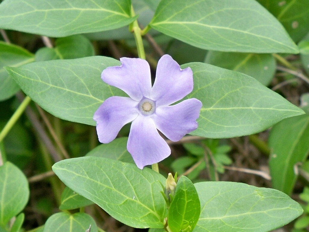 Intermediate Periwinkle (Vinca difformis).